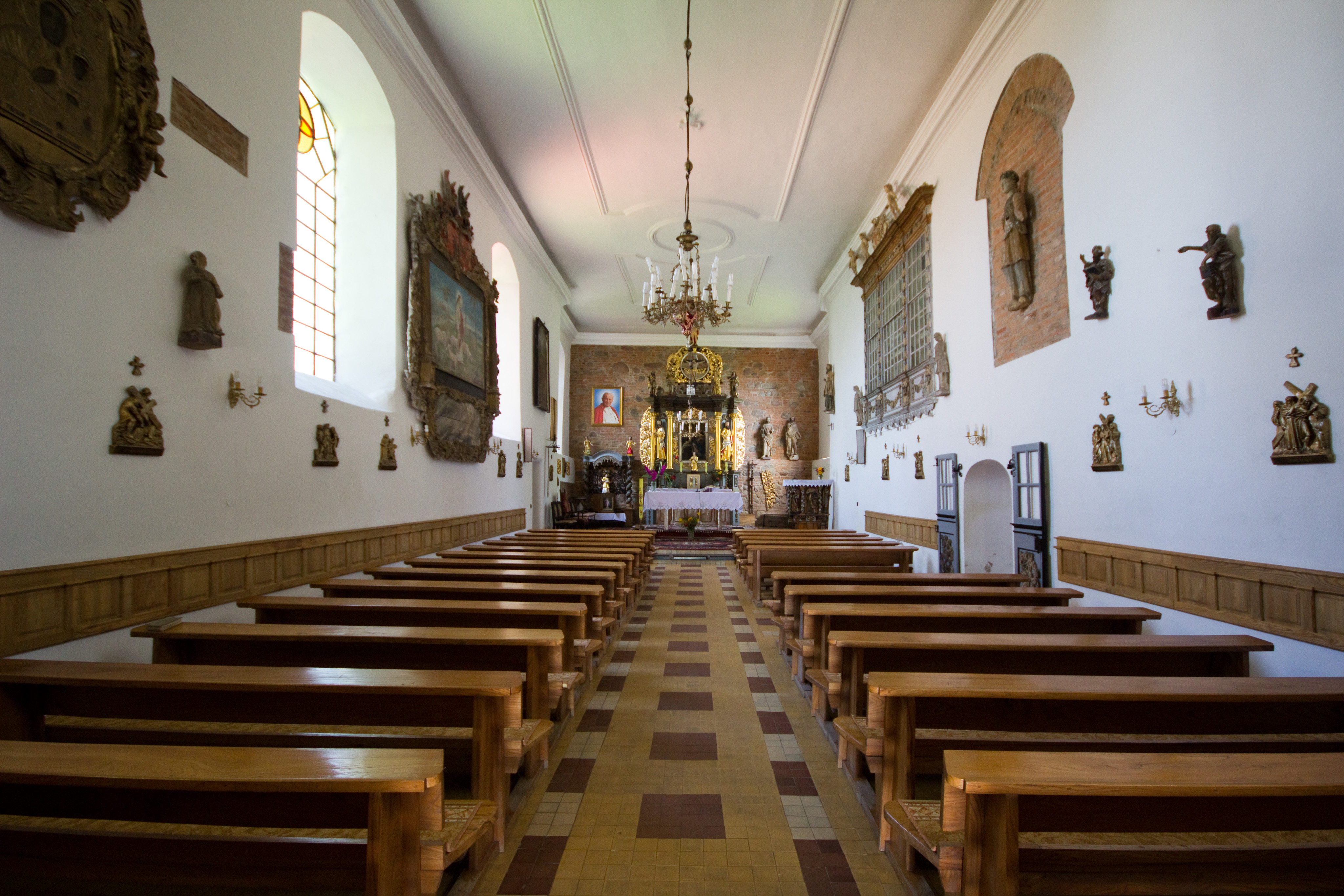 Church, Rodnowo, gmina Bartoszyce, powiat bartoszycki, Warmian-Masurian Voivodeship {